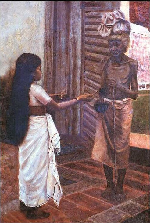 A small girl giving alms to a poor old woman.